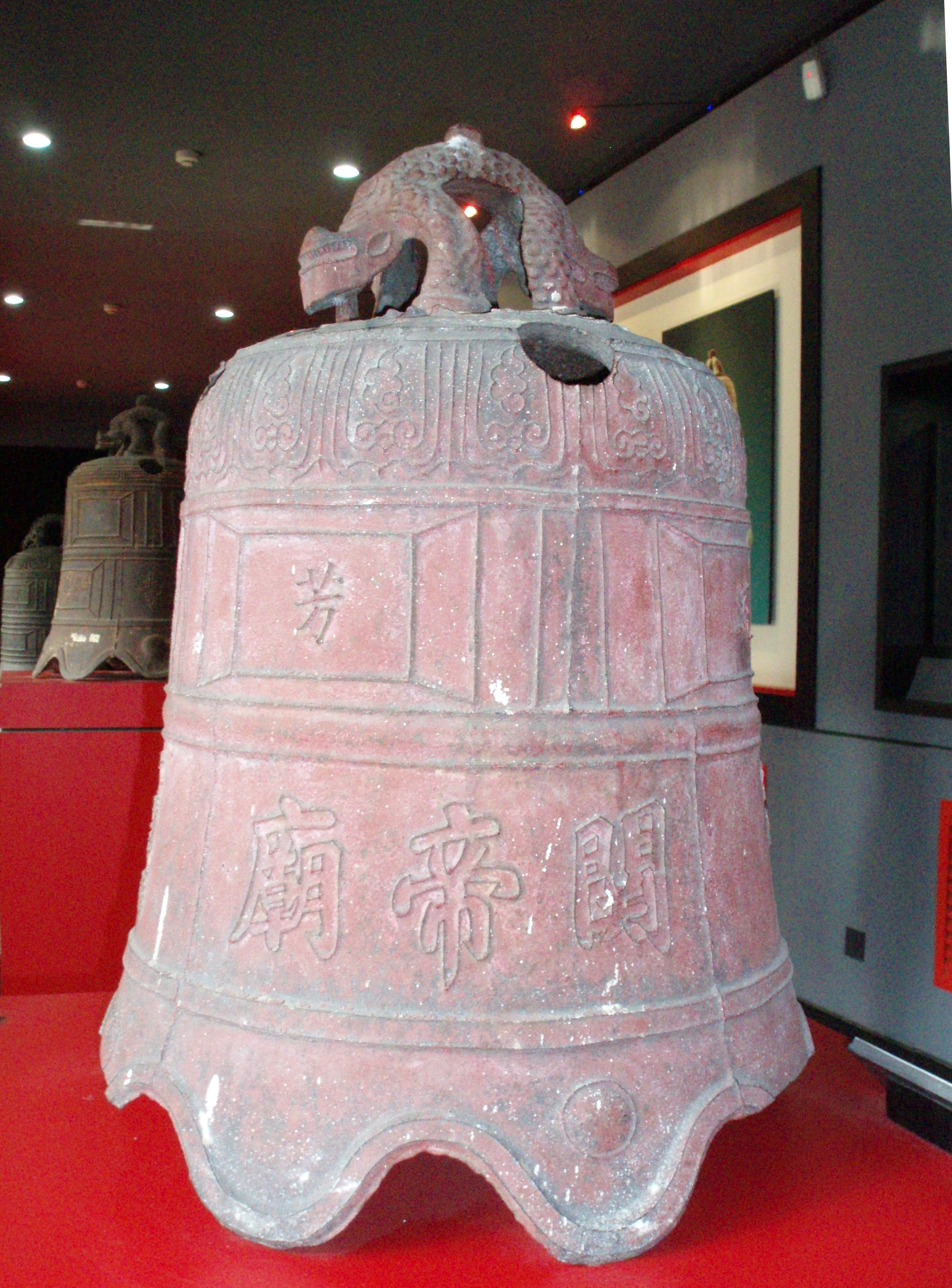 A Emperor Guan Temple Bell shown in the Big Bell Temple. 中文（香港）: 大鐘寺內的一件關帝廟鐘。